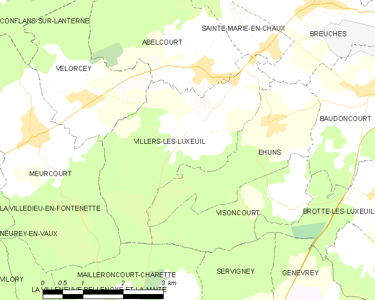 Map of French municipality